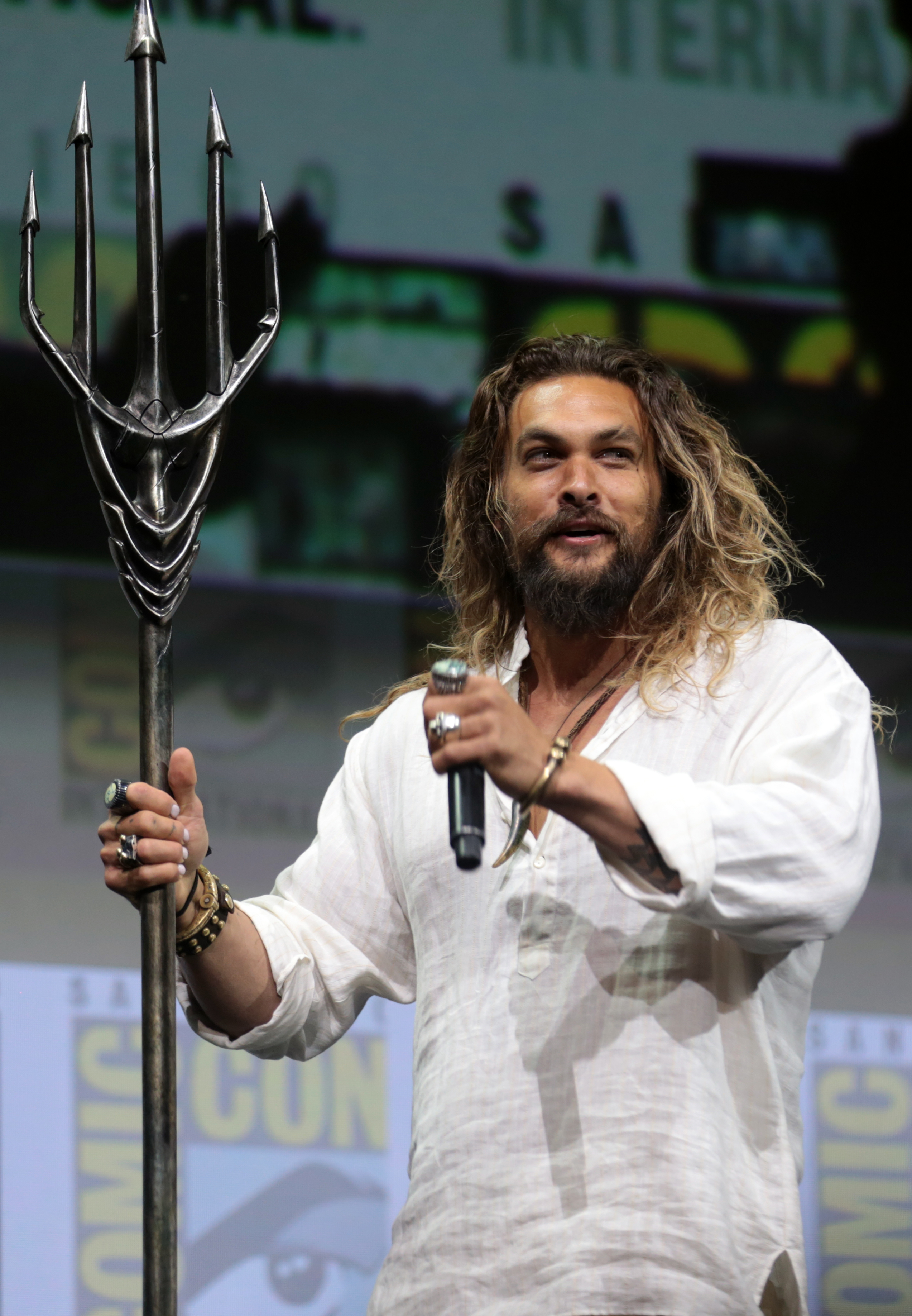 Chris Hardwick and Jason Momoa speaking at the 2017 San Diego Comic Con International, for "Aquaman", at the San Diego Convention Center in San Diego, California.